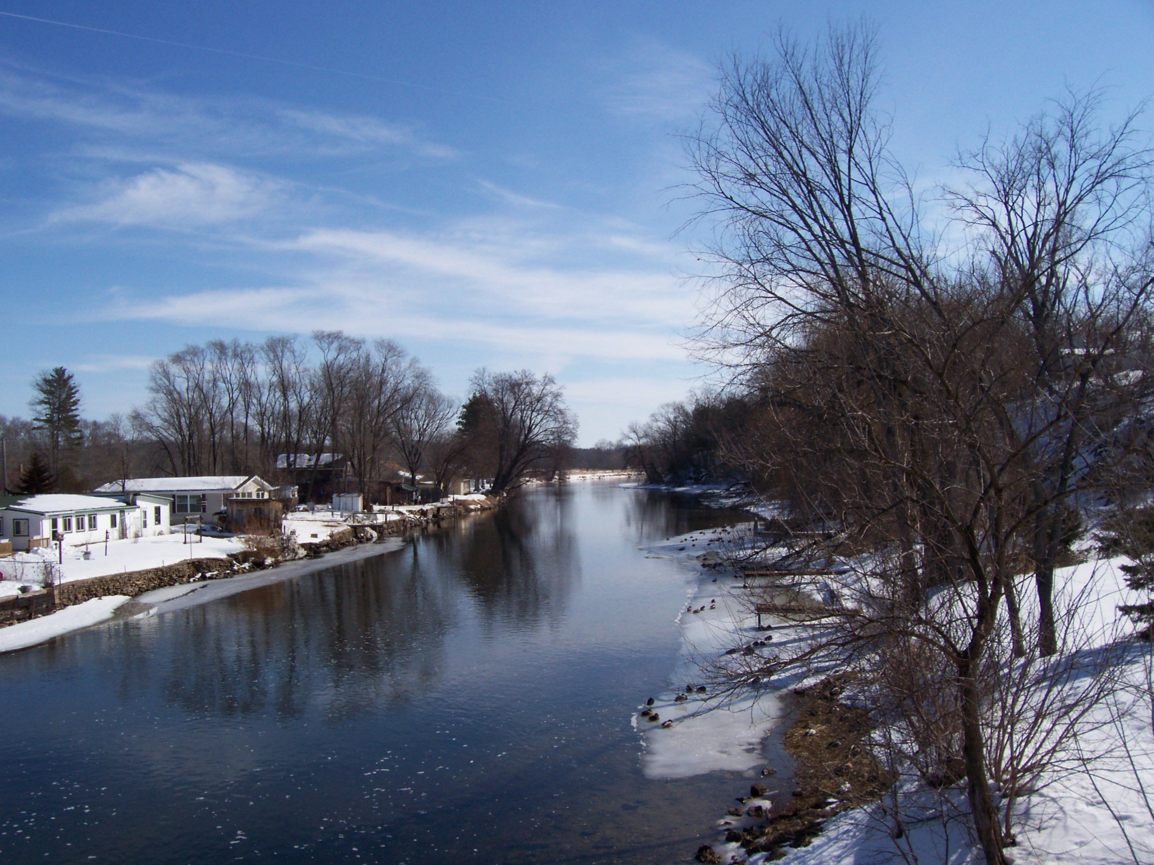 Looking east at the Fox River in Montello, Wisconsin, USA. Houses are built right up to the river. Taken March 11, 2007 by myself.